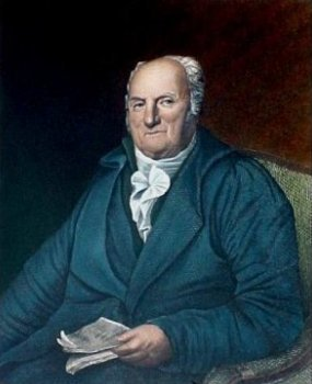 Portrait of Elias Boudinot